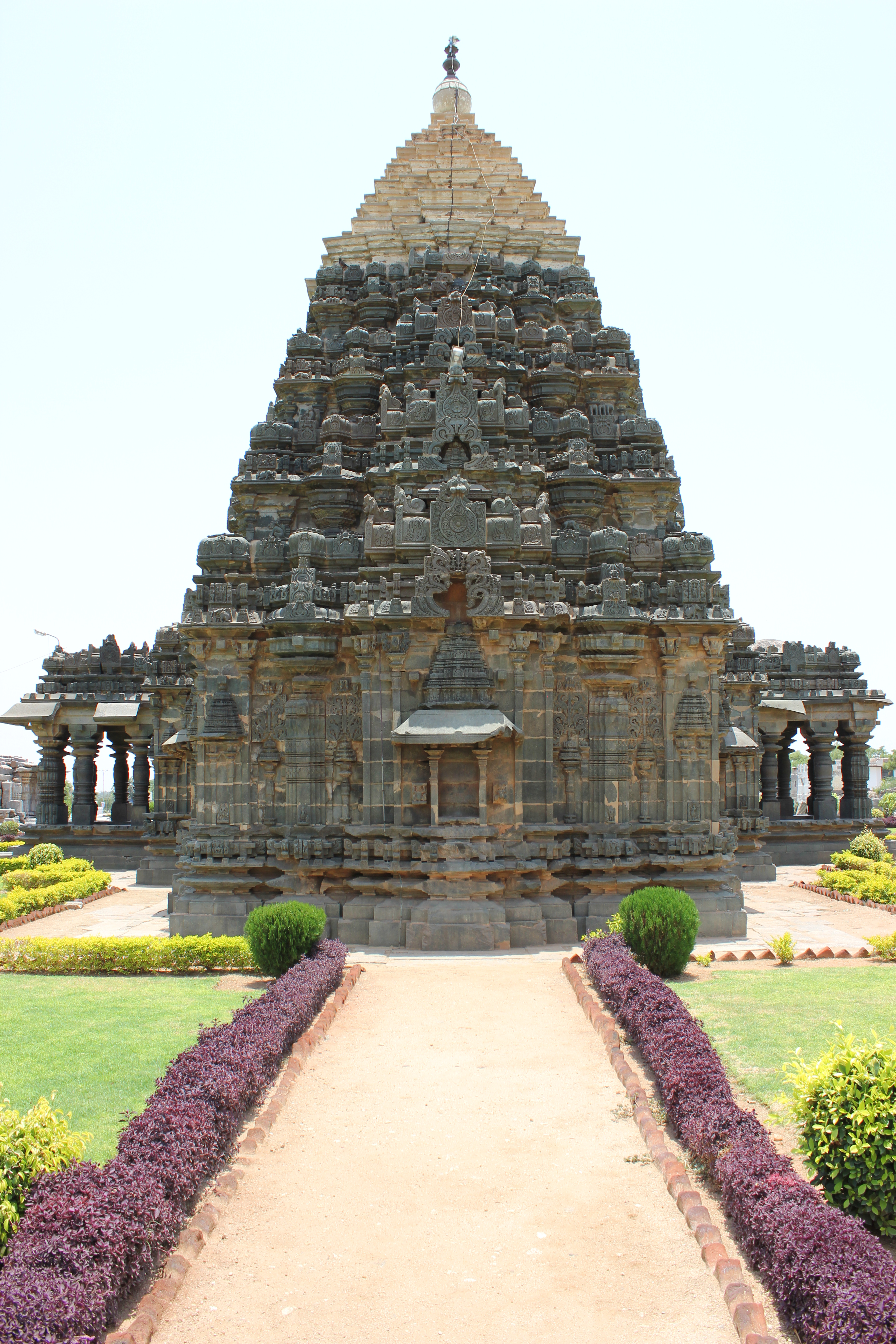 This photograph was taken by me at the the Mahadeva Temple at Itagi (or Ittagi) in the Koppal district of Karnataka state, India. Called Devalaya Chakravarti ("emperor among temples") in inscriptions It was built circa 1112 CE by Mahadeva, a commander (dandanayaka) in the army of the Western (Kalyani) Chalukya King Vikramaditya VI.